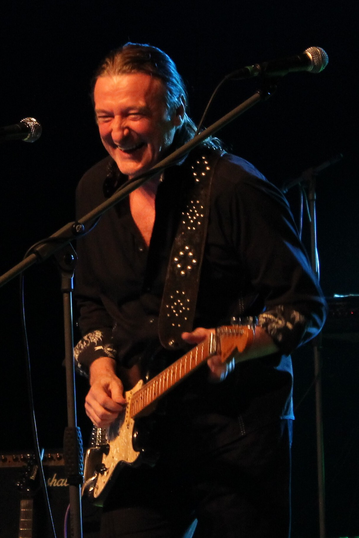 Aleš Bajger, former member of czech rock band Progres 2, Brno, Czech Republic - OpenStreetMap(Info)